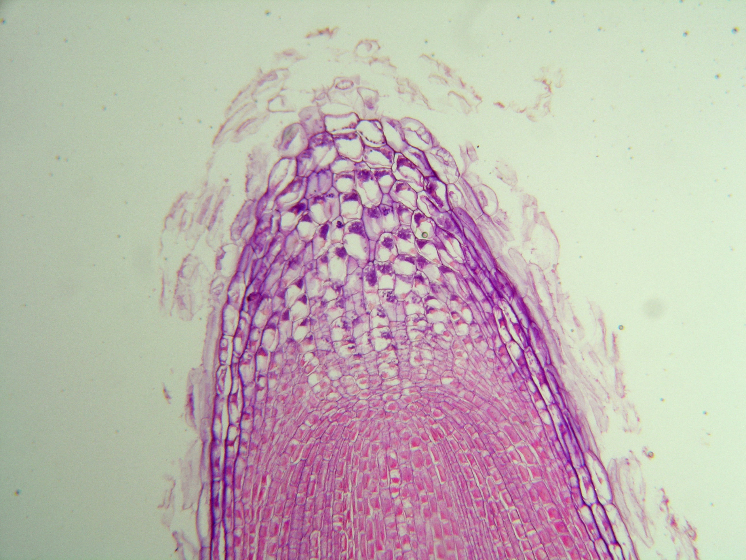 An optical micrograph of a root tip at 100× magnification.